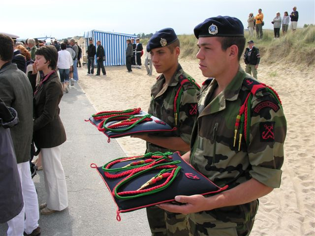 Delivery of forage by marine Fusiliers during the ceremony of June 6, 2009, a tribute to the Kieffer Commando.